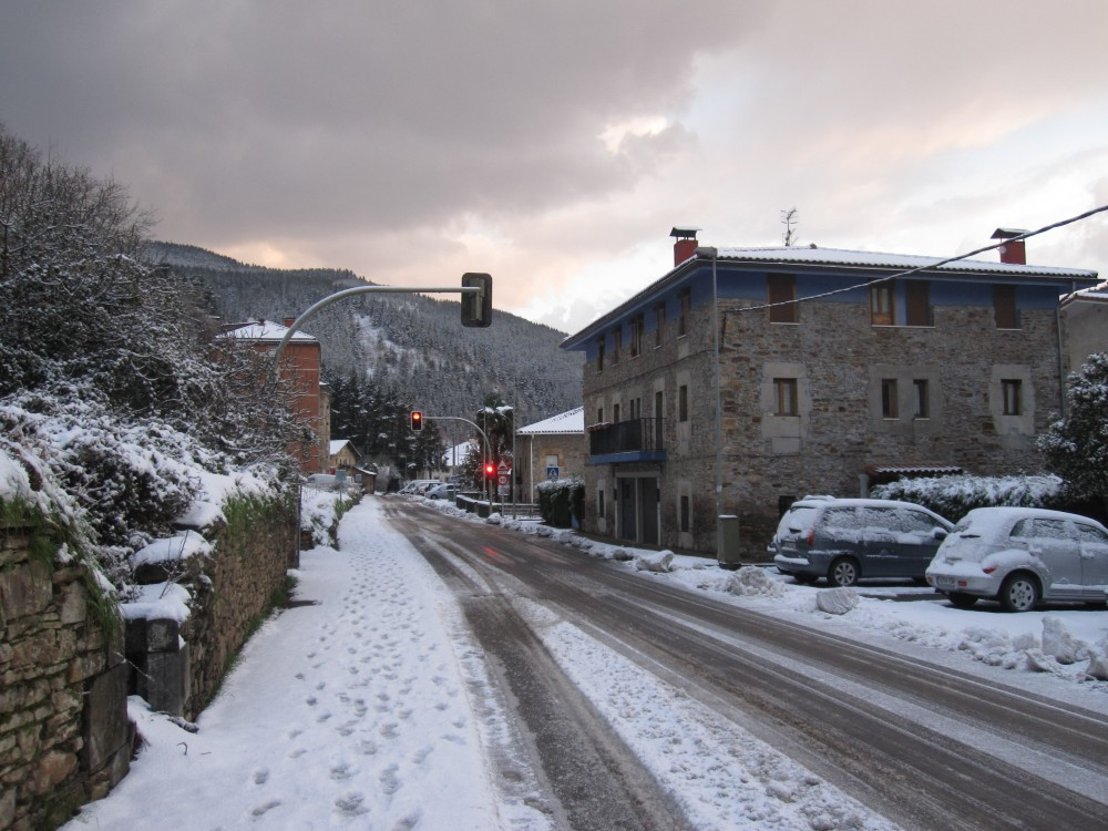 Barrena